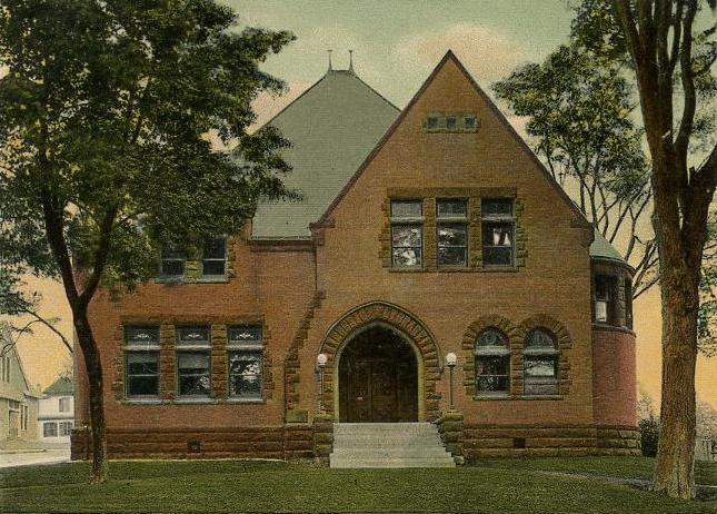 New Milford Public Library, New Milford, Connecticut; from a c. 1905 postcard published by Frank E. Soule, New Milford, Connecticut. Built in 1897, the library opened in 1898.